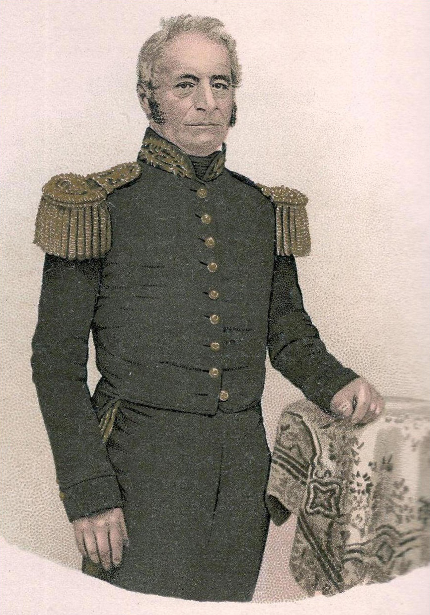 Daguerreotype of Colonel Lorenzo Lugones (1796-1868), a soldier who participated in the Argentine Independence War. The image was taken from the book "El Coronel Lorenzo Lugones" by José Juan Biedma, published in Buenos Aires in 1896.